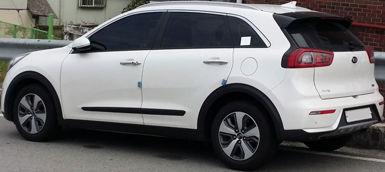 Kia Niro